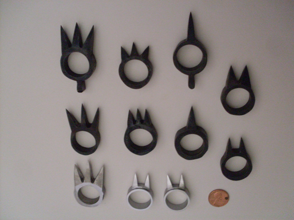 Kakute I made, each from one solid piece of 1050 high carbon steel and hardened.